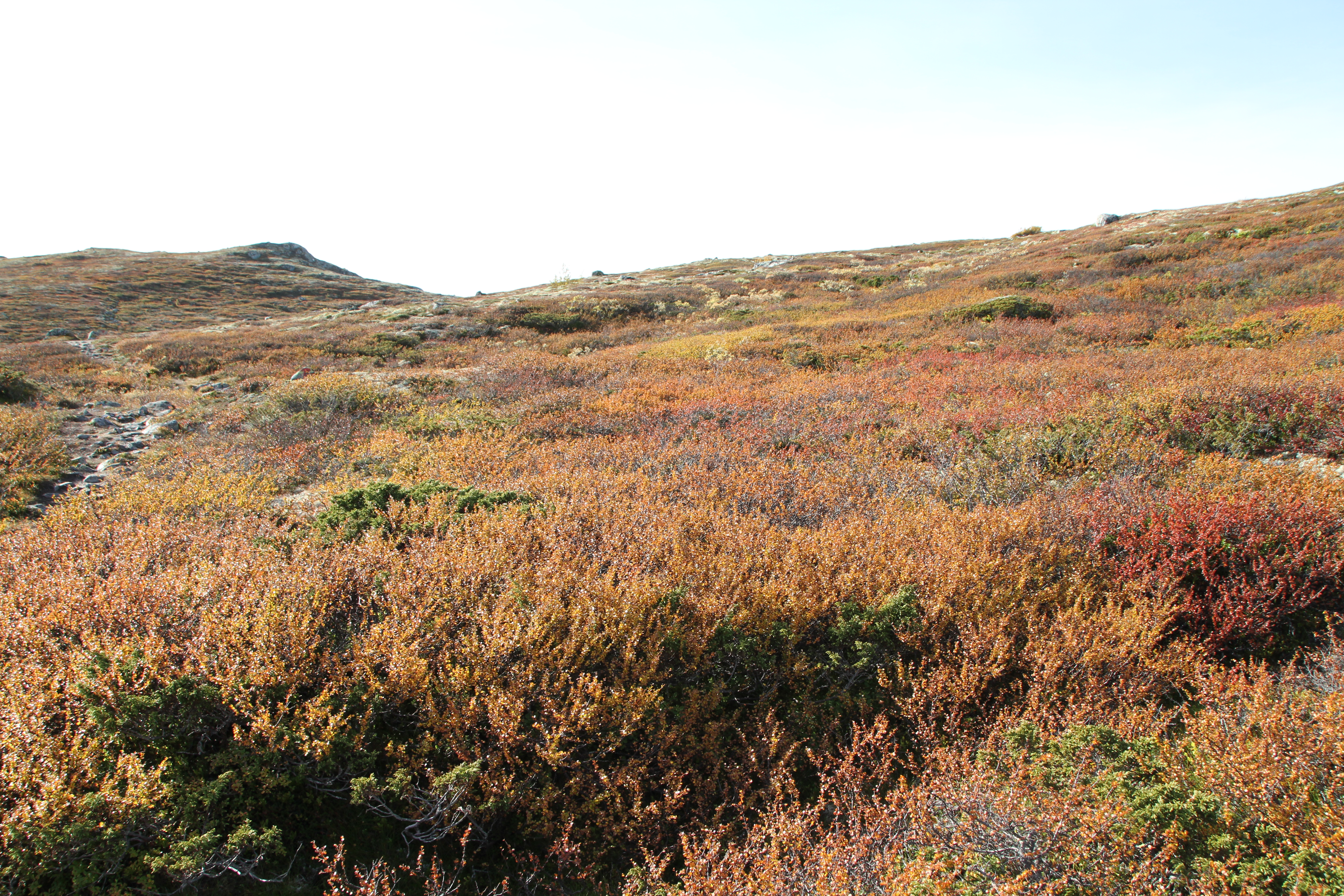 SIgridfjell is a part of western Dagalifjell, and has three separate tops With low primary factor,. The three tops stand at 1192 masl, 1198 masl, and 1232 masl. Nore og Uvdal municipality, Buskerud county, Norway